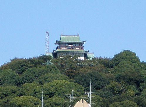 Komaki-shi Rekishikan, Komaki Castle